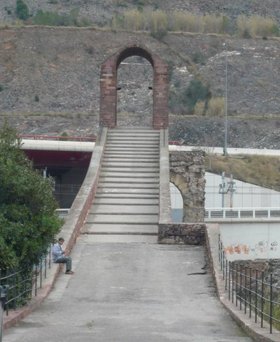 The medieval Devil's bridge from 1283 in Martorell, Catalonia, Spain. The gothic structure is part of the ancient Via Augusta and crosses the river Llobregat on the foundations of a former Roman bridge. The clear span of the central pointed arch is impressive 37.3 m. A Roman triumphal arch marks the eastern entrance.